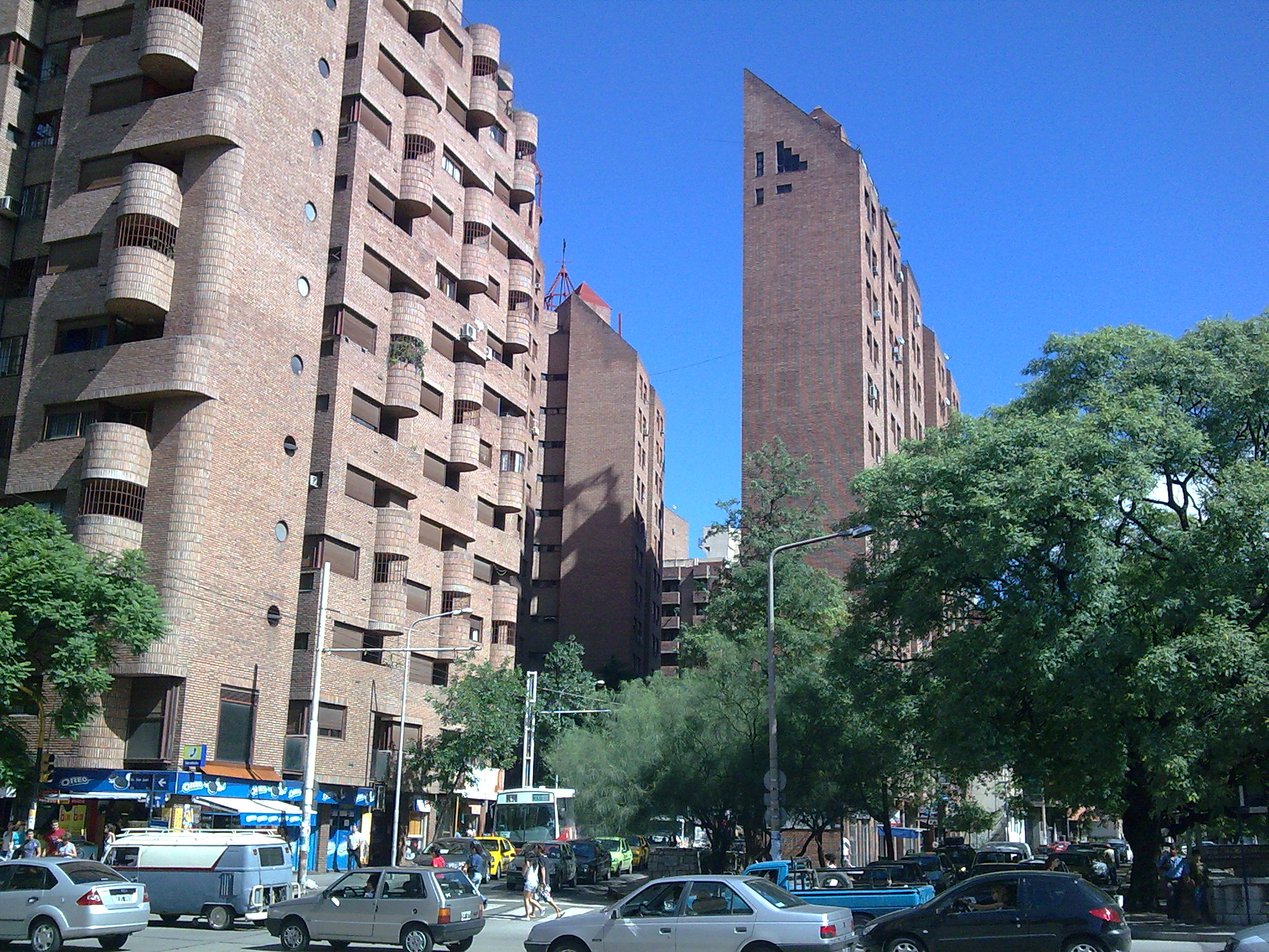 Buildings in Belgrano street in Güemes neighborhood, Cordoba, Argentina.